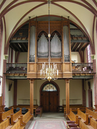 Picture of the neogothic pipe organ in the monastery of the Lazarists in Panningen, Limburg, NL